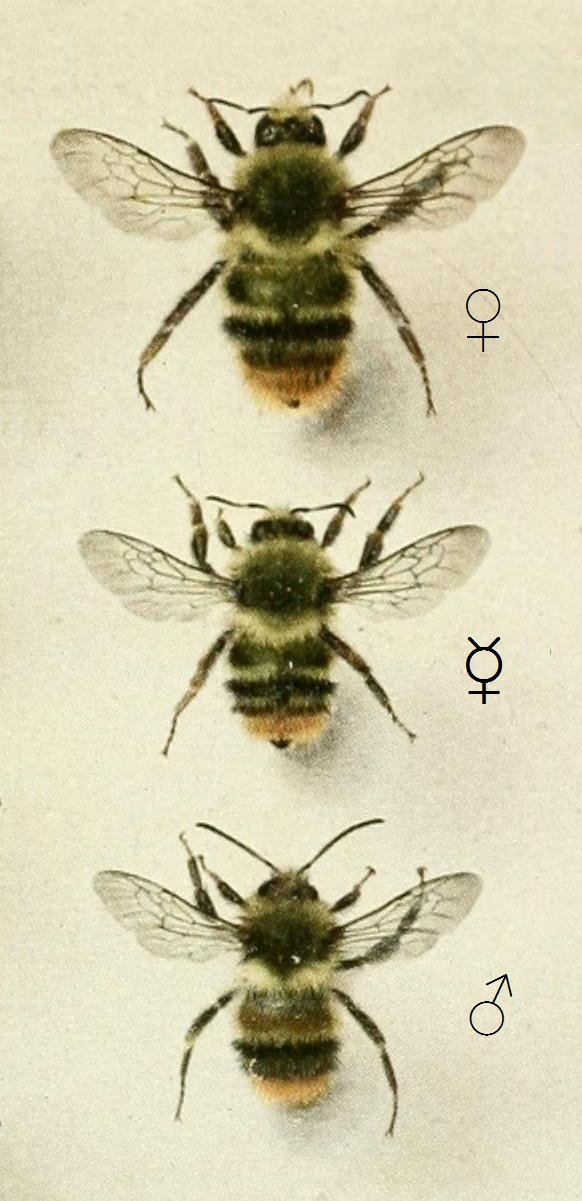 Queen, worker and male of Bombus sylvarum